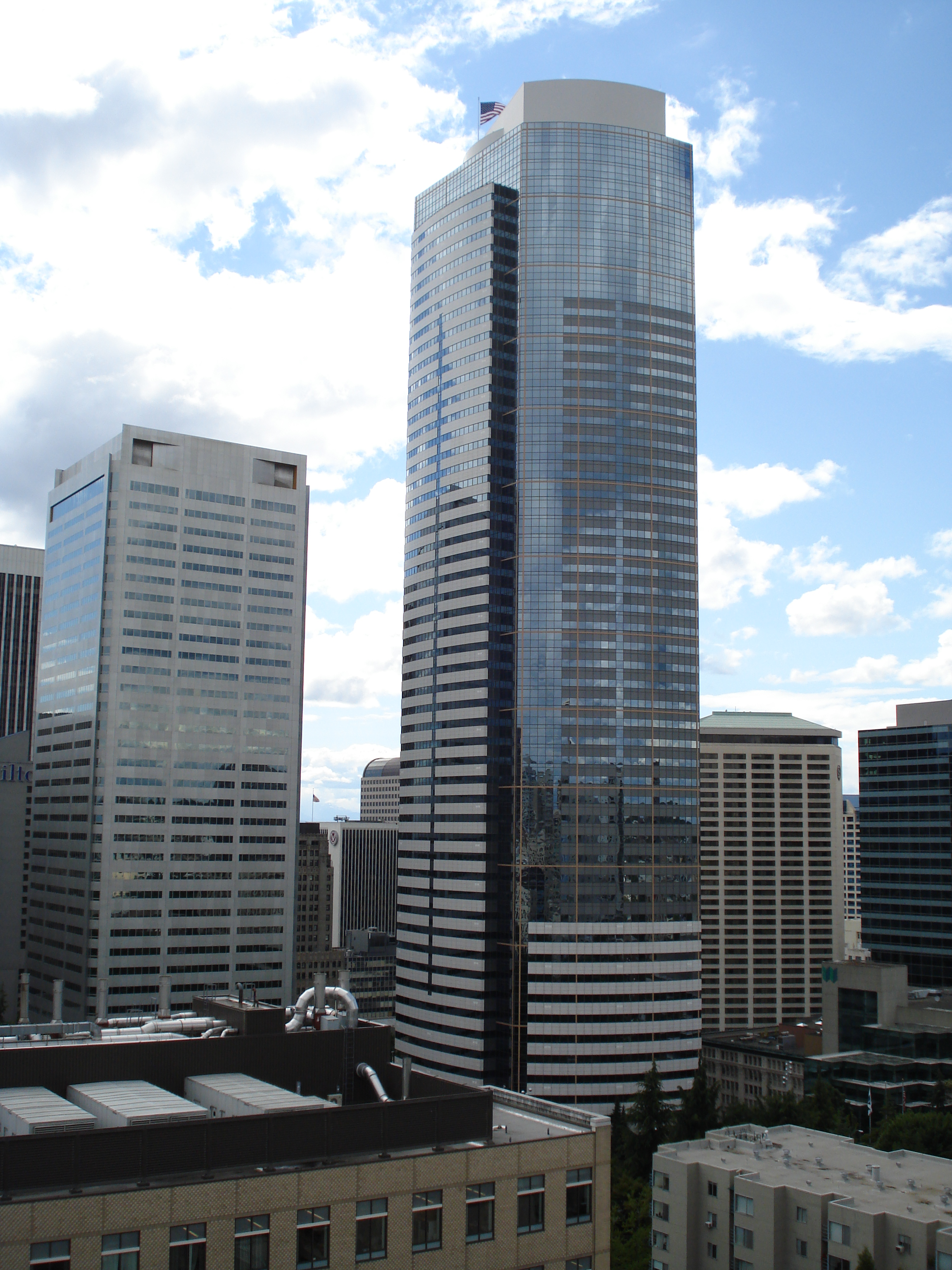 One Union Square, left, and Two Union Square as taken from the terrace at Virginia Mason's Lindemann Pavilion, Seattle, WA